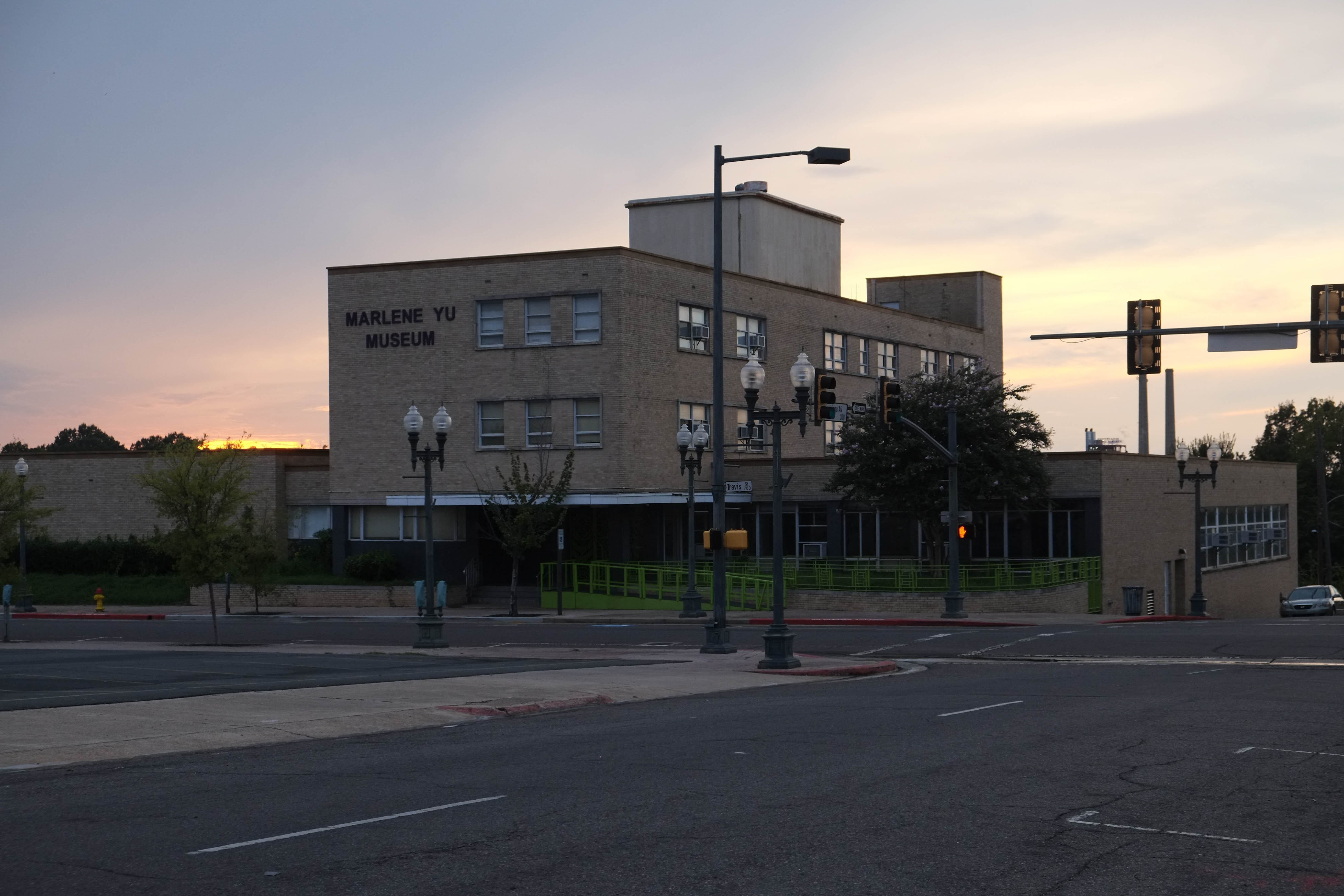 Marlene Yu Museum, in Shreveport, Louisiana, United States.